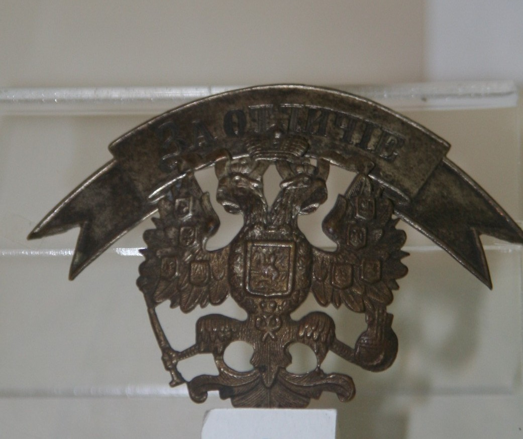 Cockade of military cap of Huseyn Khan Nakhichevanski